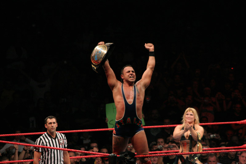 Santino Marella retains his IC Title in Milan,Italy. In the background clapping can be seen Beth Phoenix